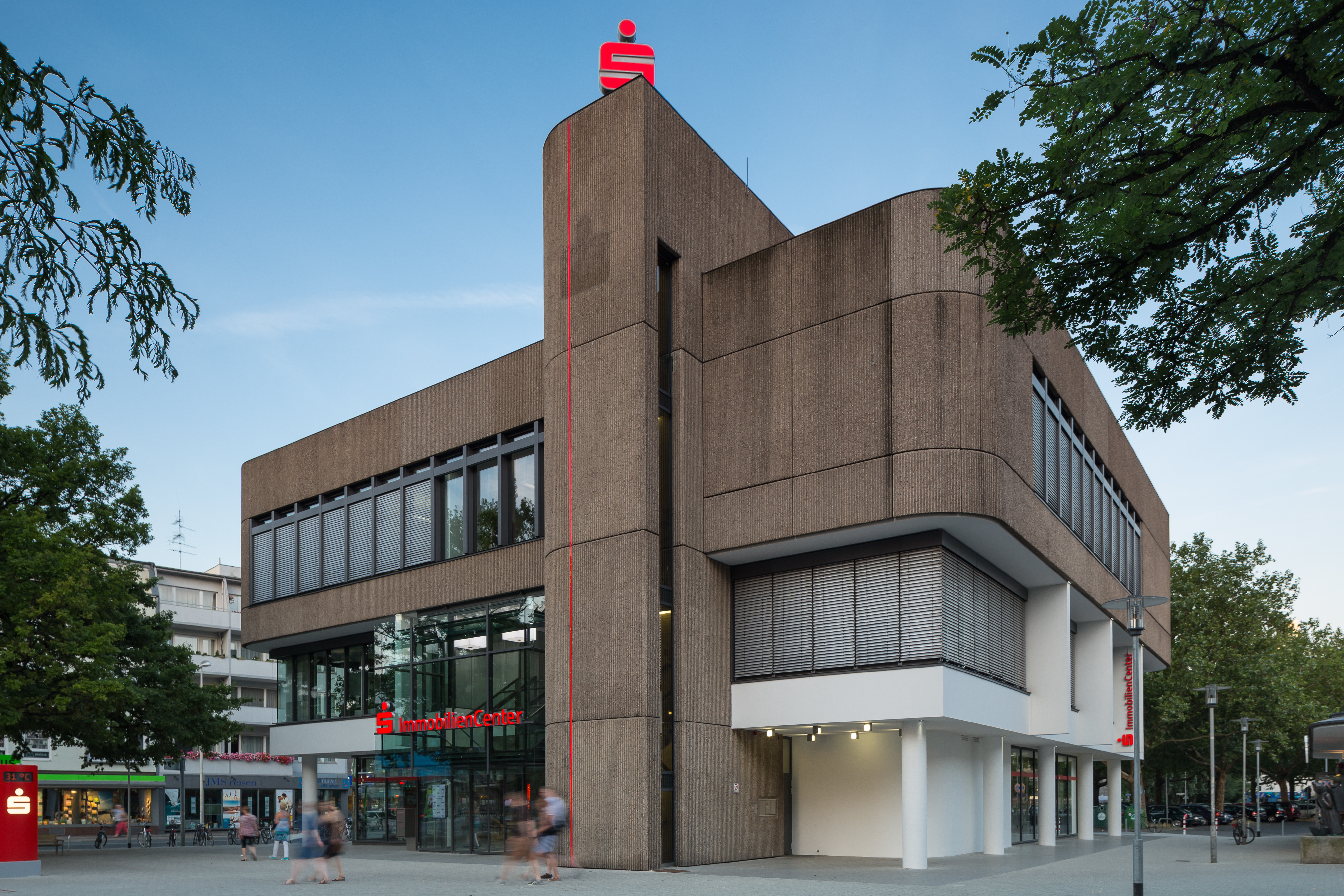 Office building of Sparkasse Hannover (center for real estate) located at Karmarschstrasse in Mitte district of Hanover, Germany.